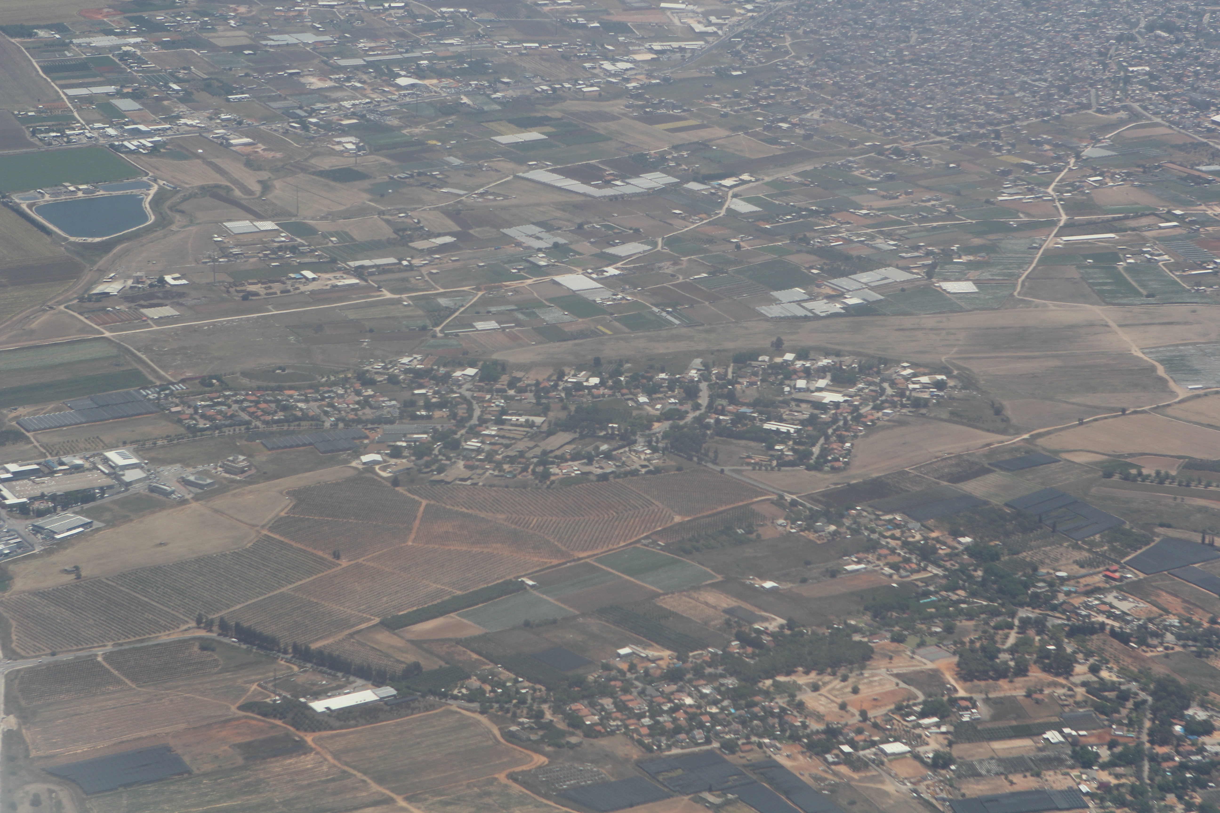 The bootm of the picture is Yanuv. Above it is Tnuuvot. The city in the top right is Qalansuwa